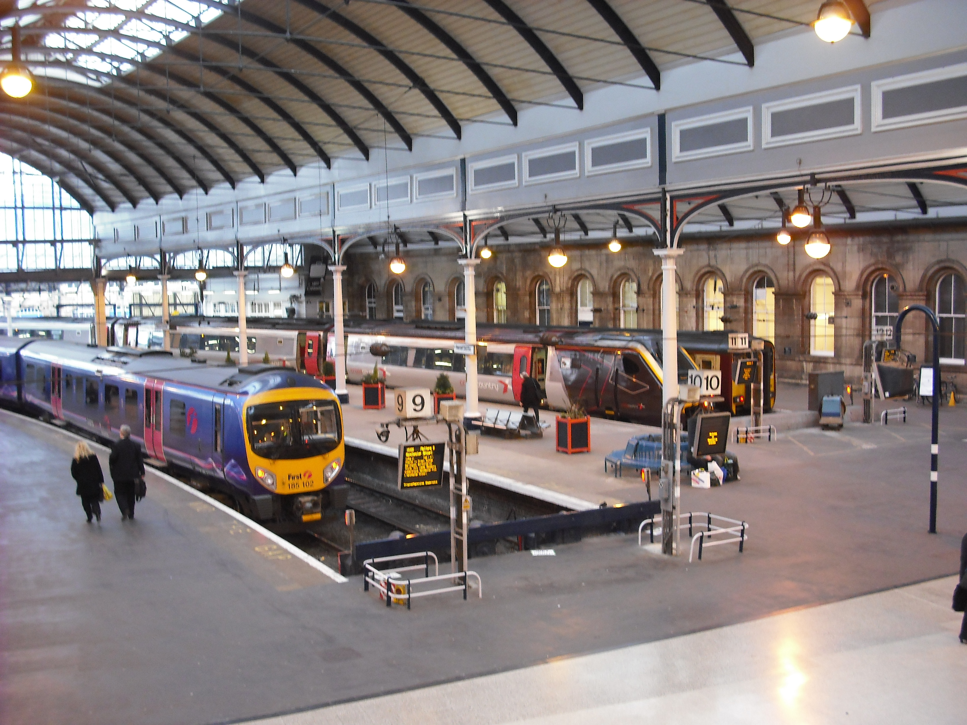 Various trains terminating at Newcastle railway station